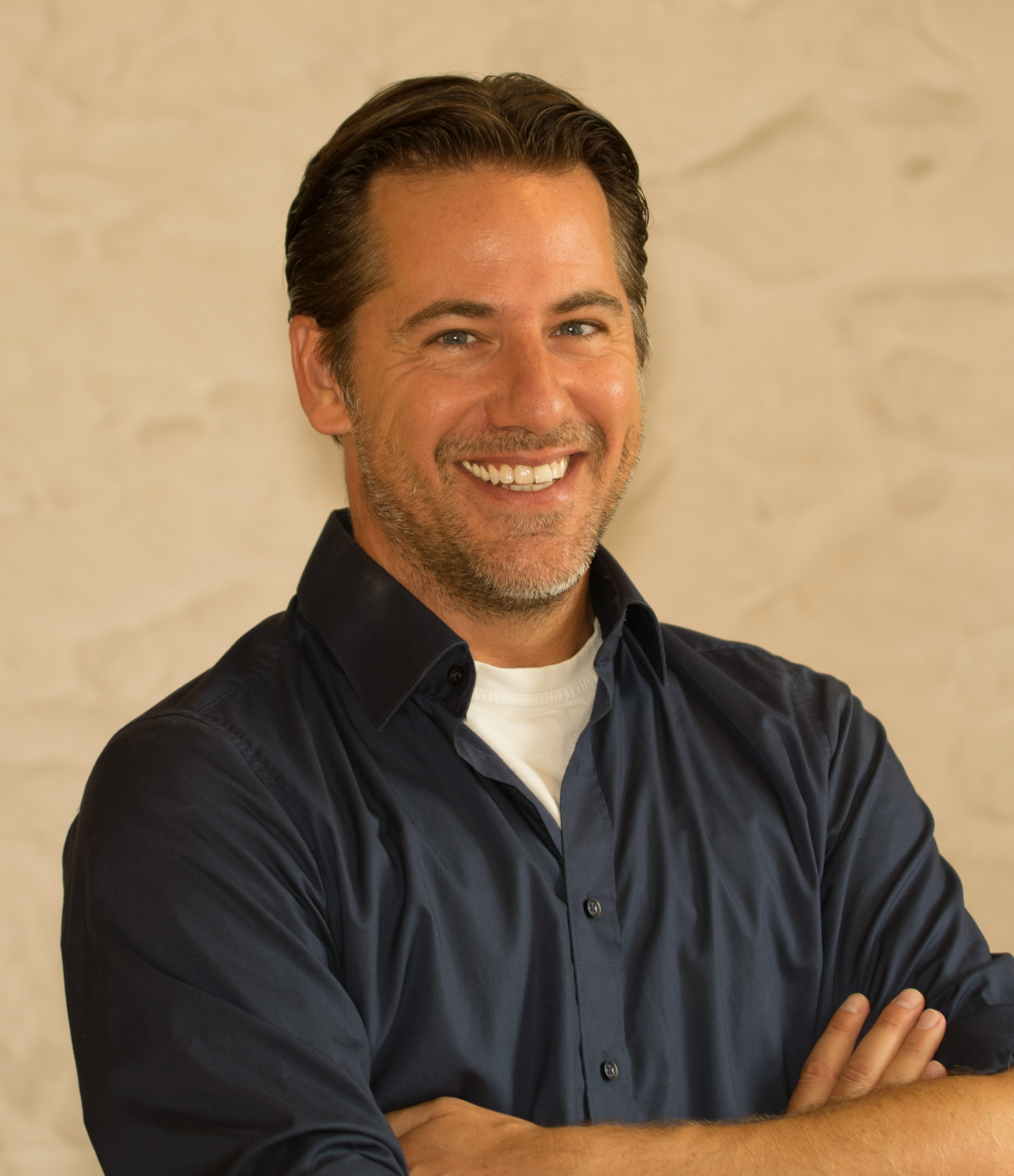 Andreas Wilhelm